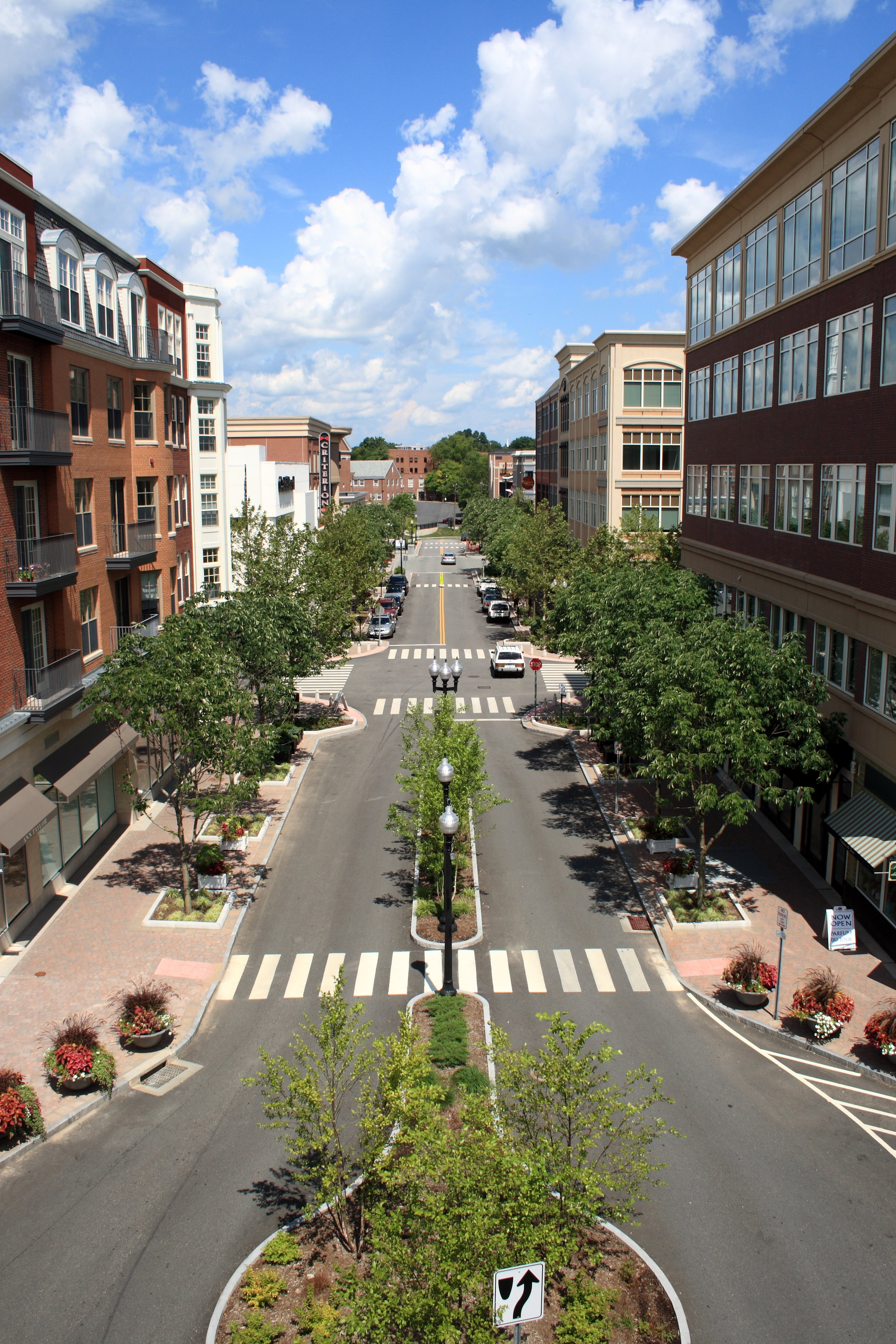 Blue Back Square shopping district in West Hartford, Connecticut, from the top level of a parking garage